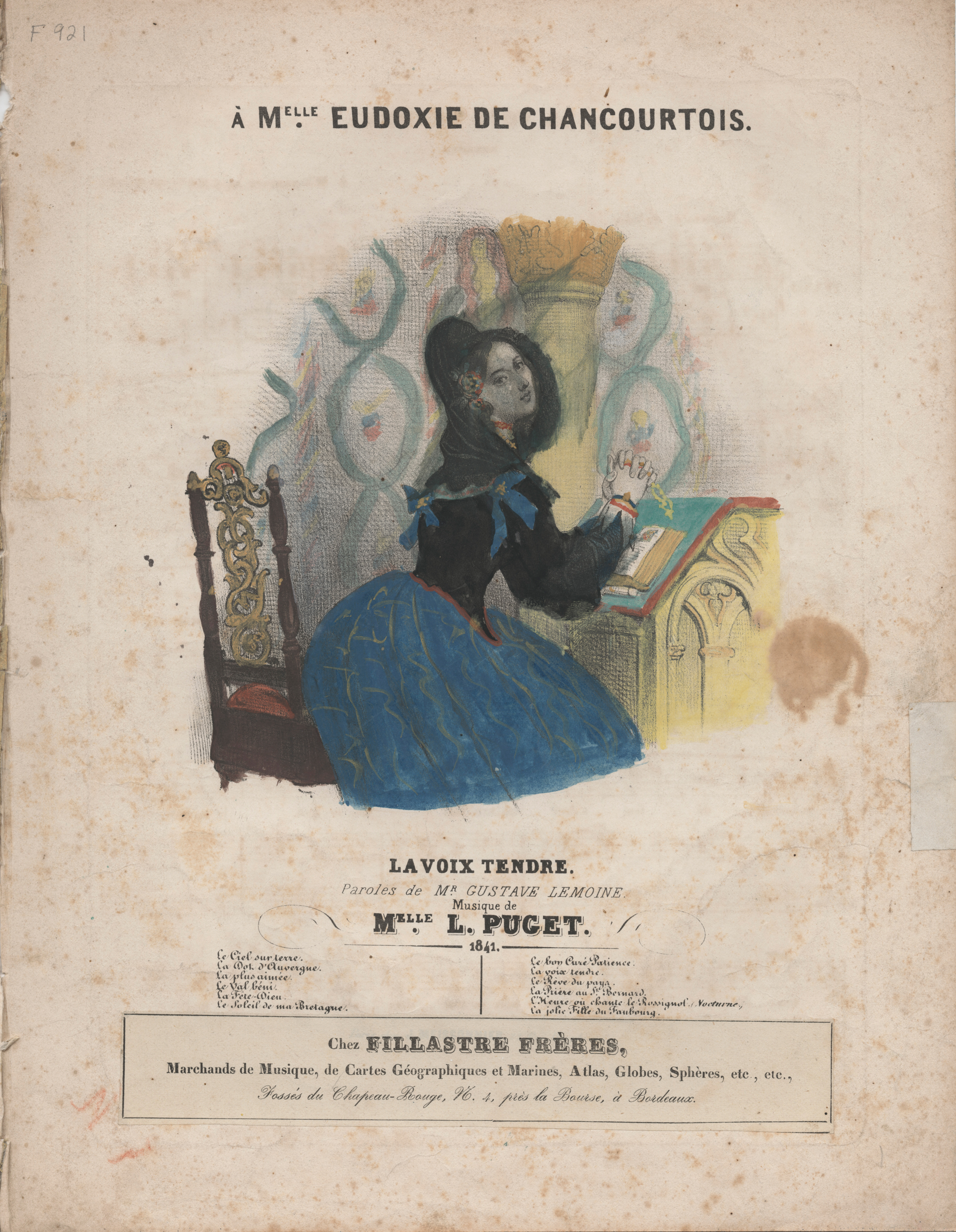 Front page of sheet music for Puget, Loïsa, 1810-1889. La voix tendre : [romance] / paroles de Gustave Lemoine ; musique de L. Puget. Paris : J. Meissonnier, 1841. 19th Century French Sheet Music Collection. Marvin Duchow Music Library, McGill University. Retrieved January 29, 2018 from